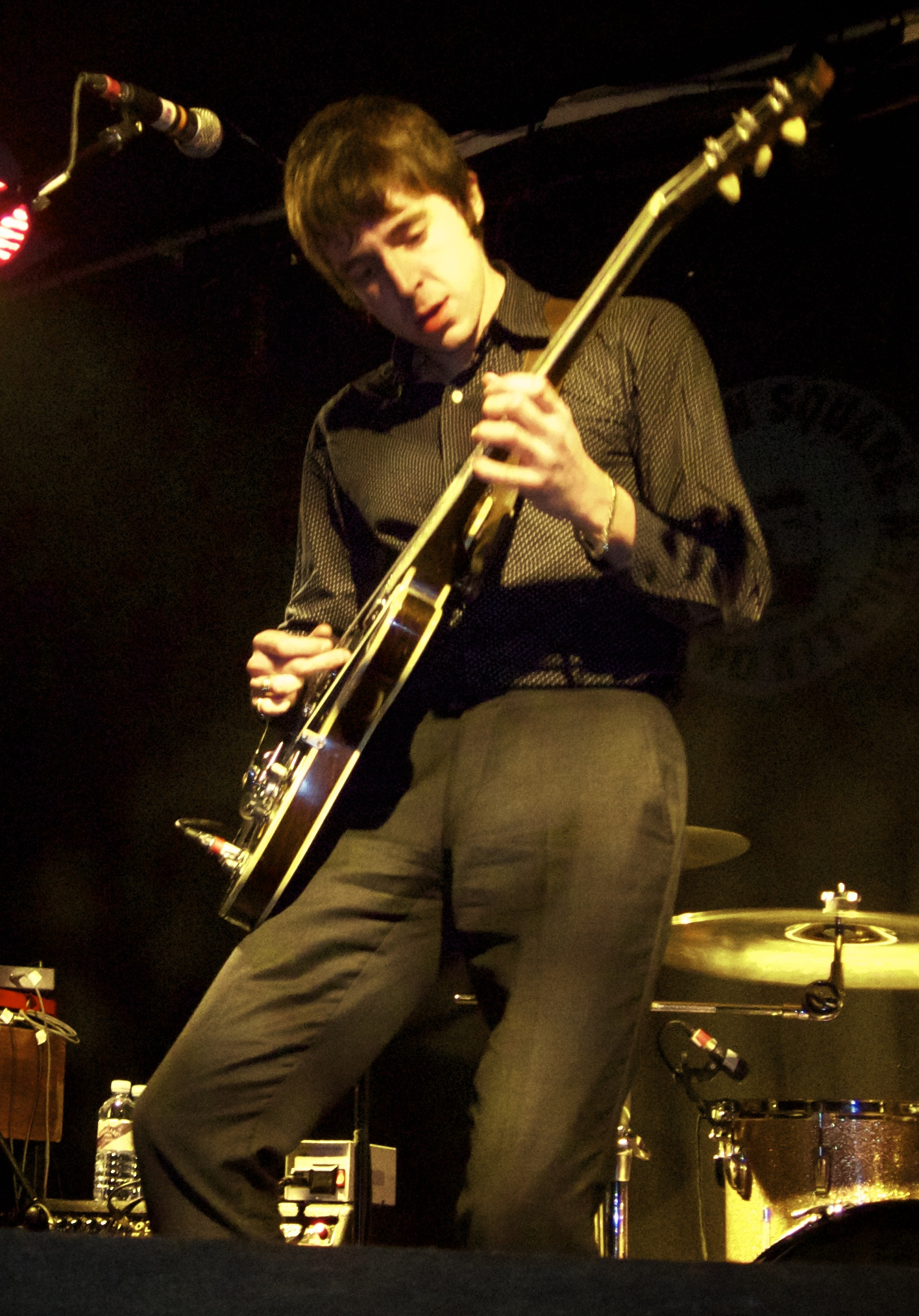 Miles Kane at the Hoxton Square Bar & Kitchen